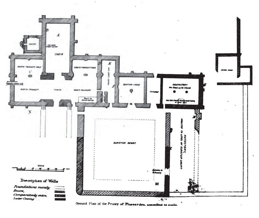 Copyright expired, Taken from book History of the Religious House of Plucardyn by SR MacPhail published 1881, Edinburgh.